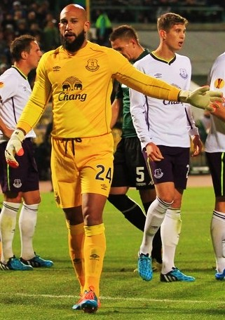 Tim Howard